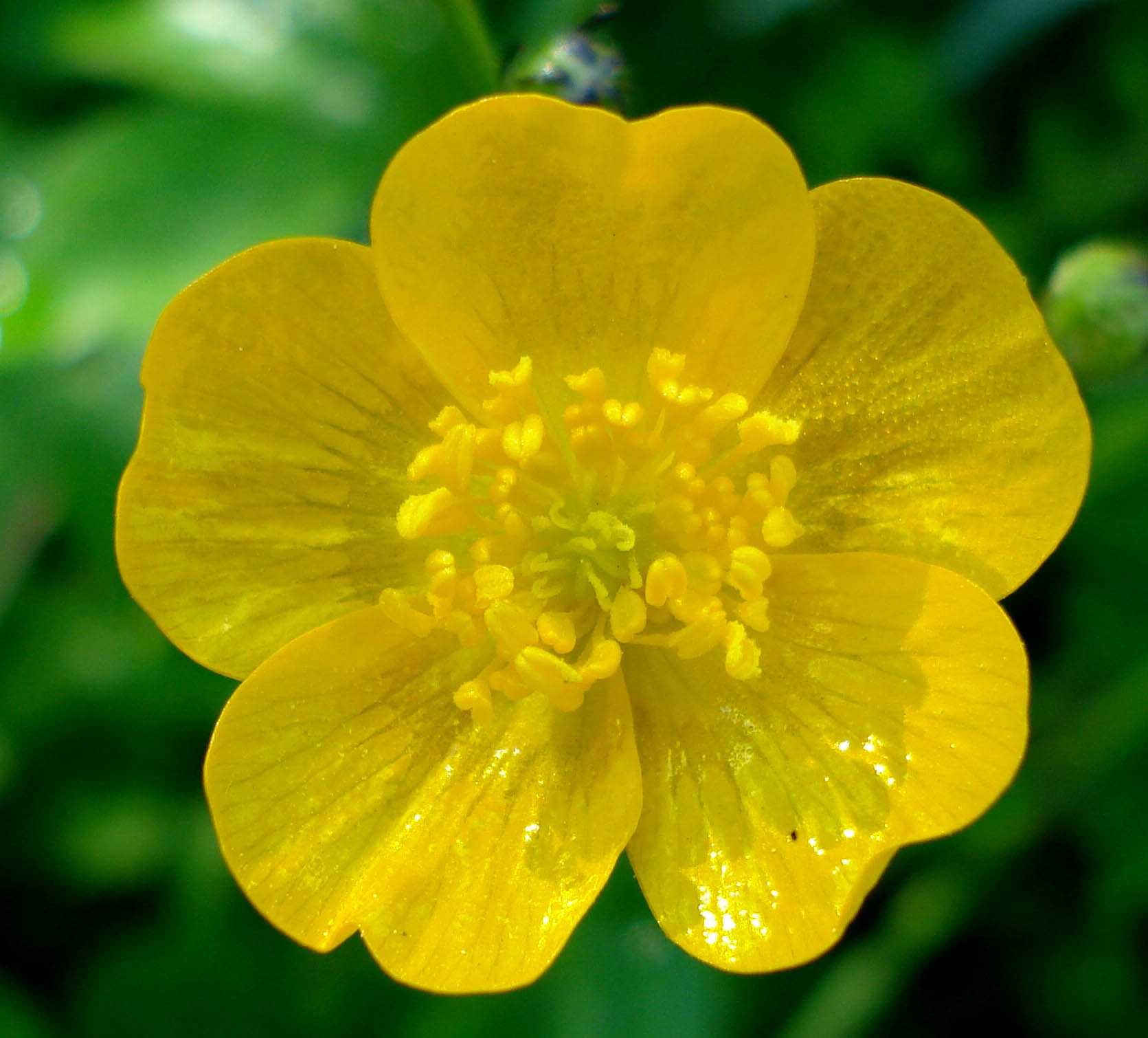 Ranunculus lanuginosus (Unterfranken, Germany)